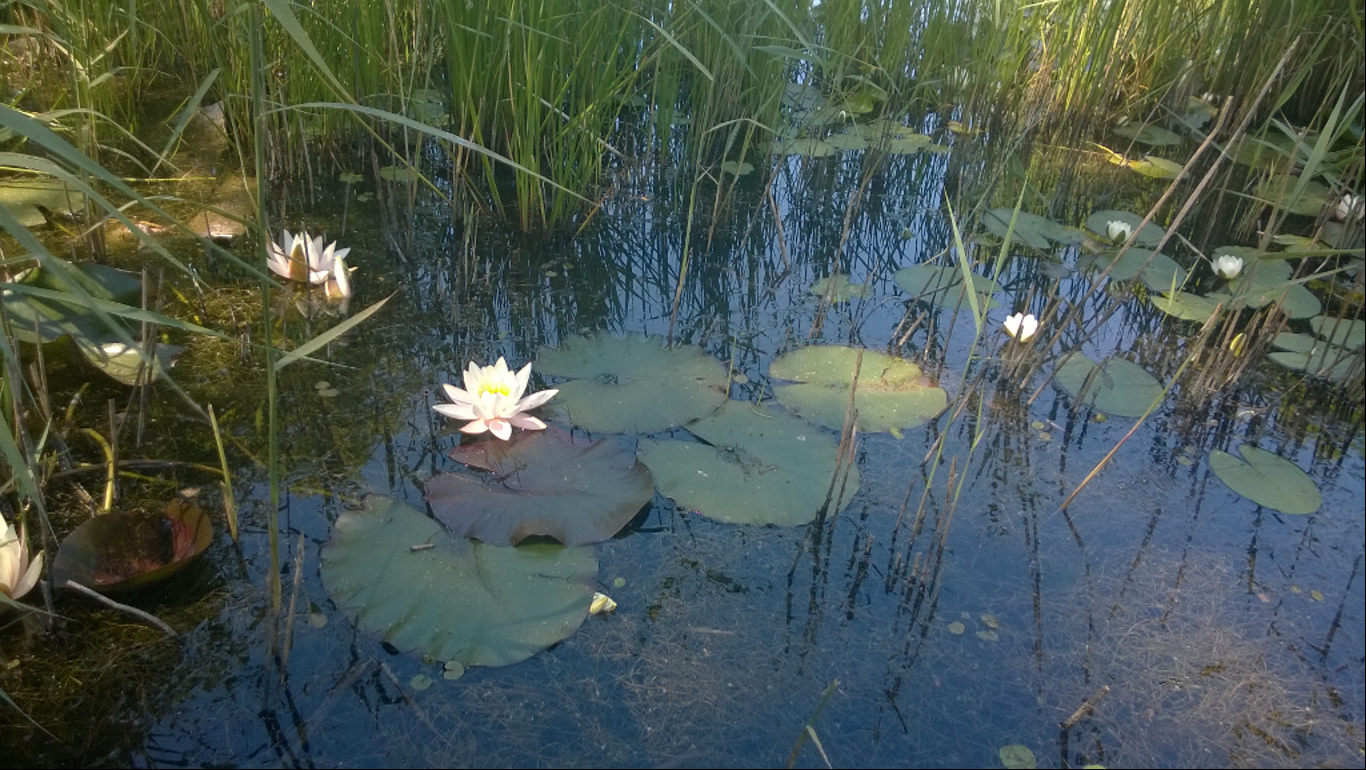 Nymphaea alba, Weisse Seerose, European white water-lily in a pond of Petite Camargue Alsacienne